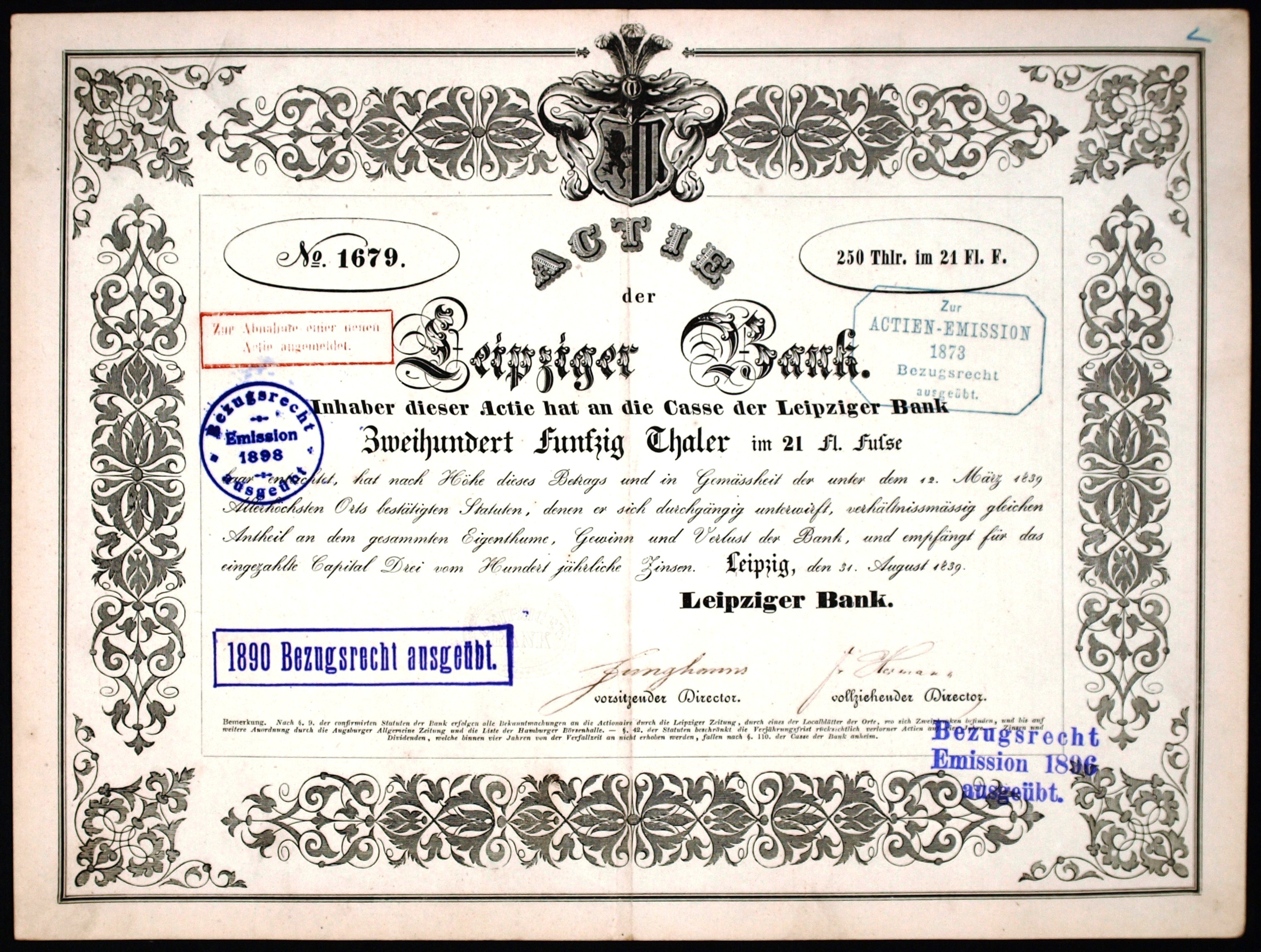 Share of the Leipziger Bank, issued 31. August 1839